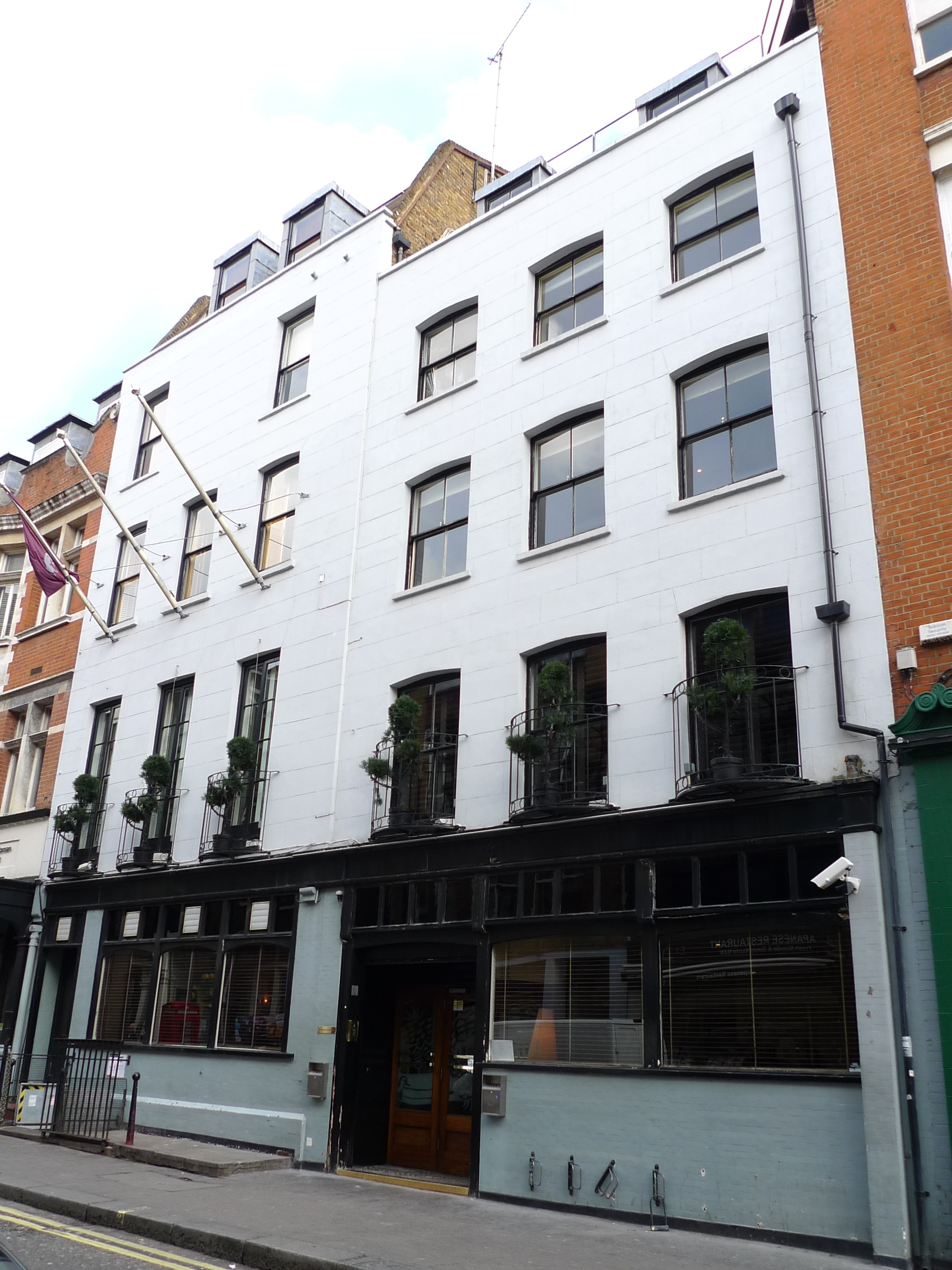 Members' club on Dean St. Address: 45 Dean Street. Owner: (website).